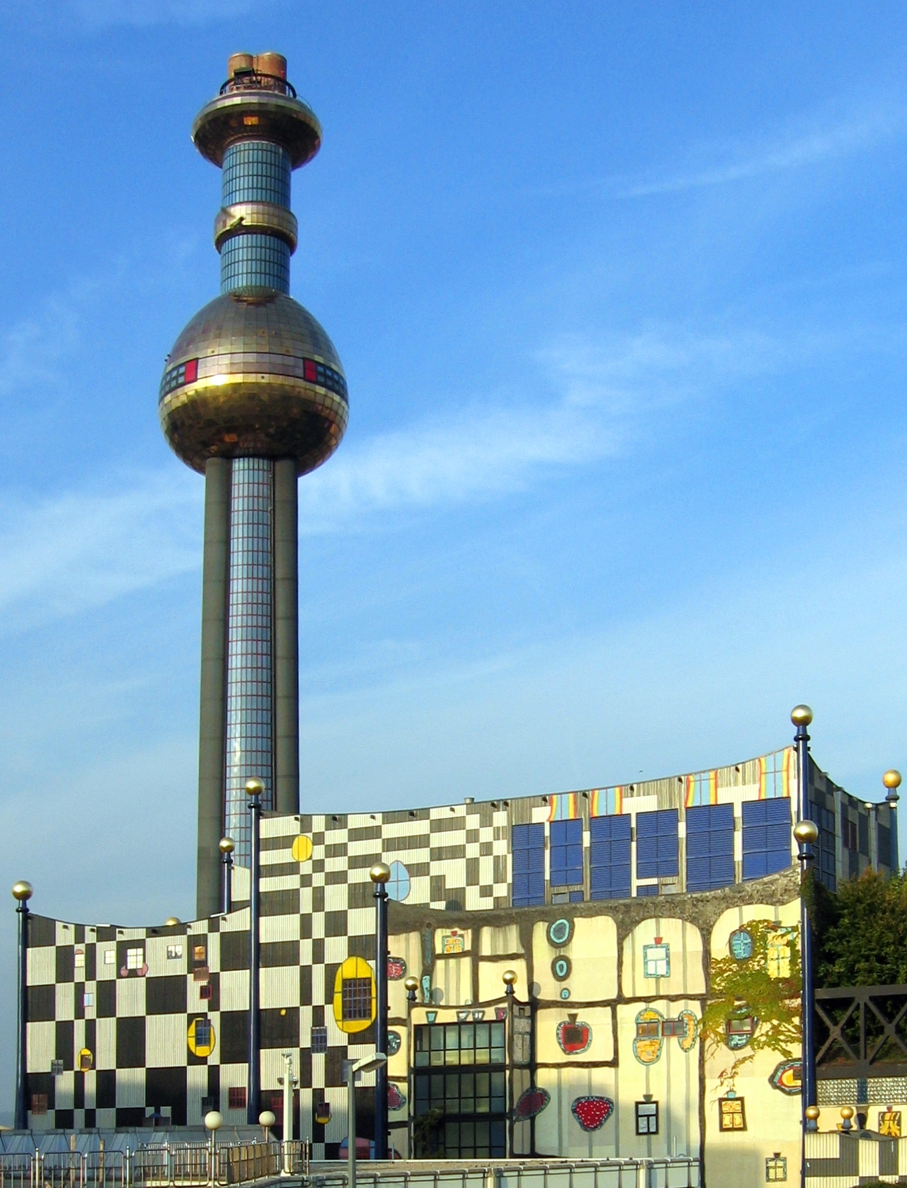 South-southwest view of District Heating Plant Spittelau, Vienna. Exterior design by Friedensreich Hundertwasser. Late afternoon picture at low sun angle.